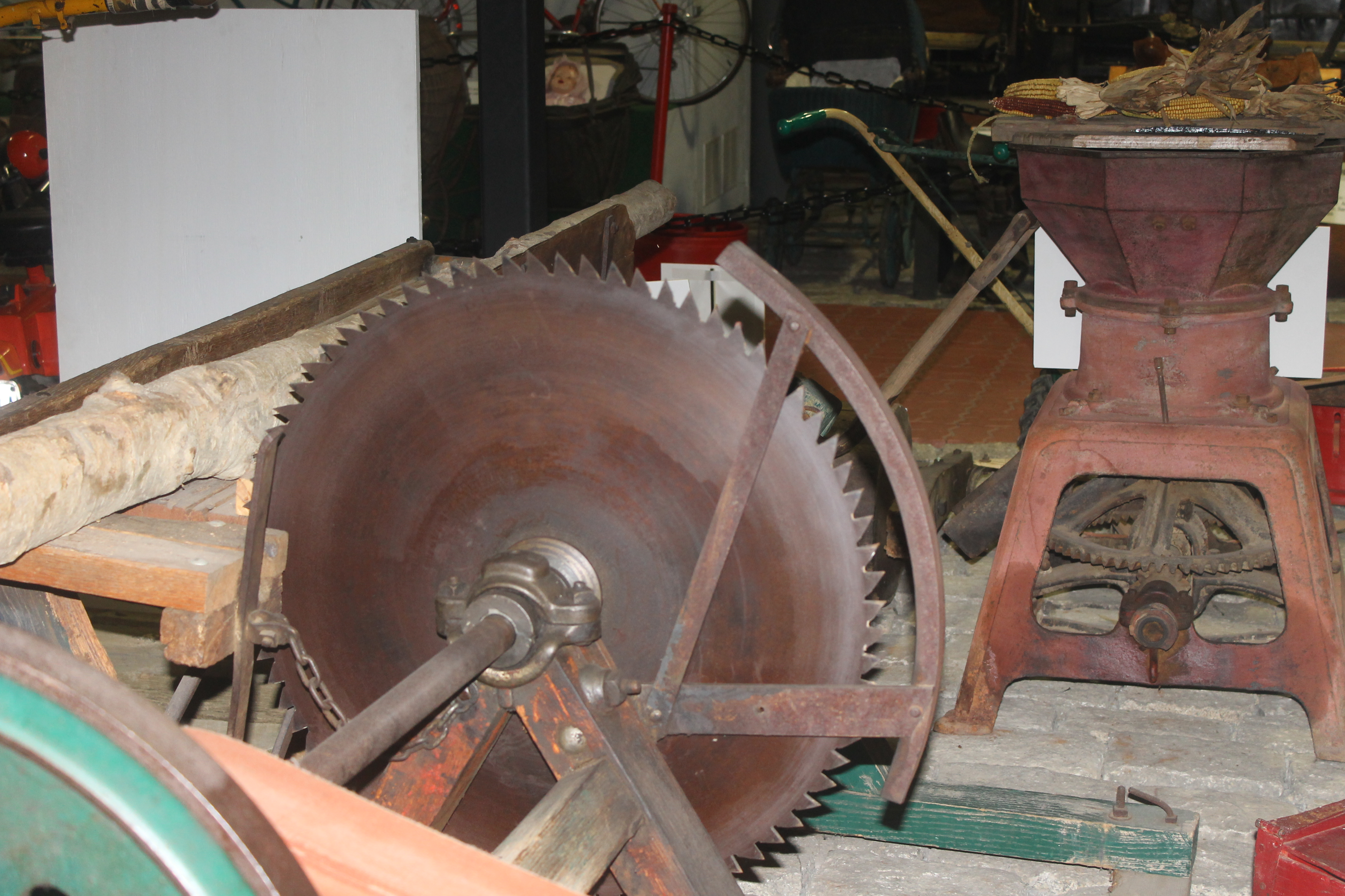 I took photo with Canon camera of circular saw cutting kitchen wood for ready use at the Cole Land Transportation Museum in Bangor, ME.